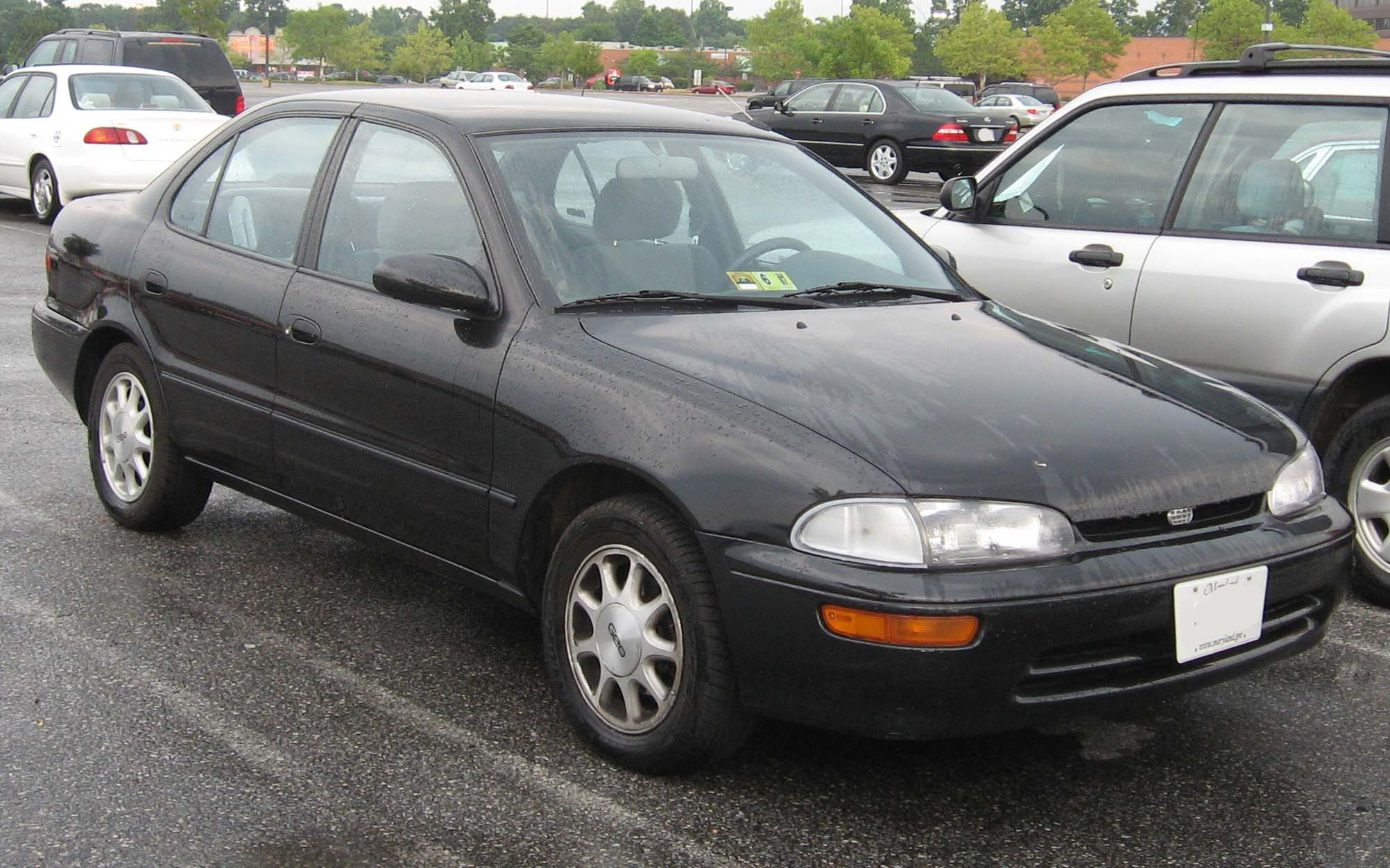 1993-1997 Geo Prizm photographed in USA.